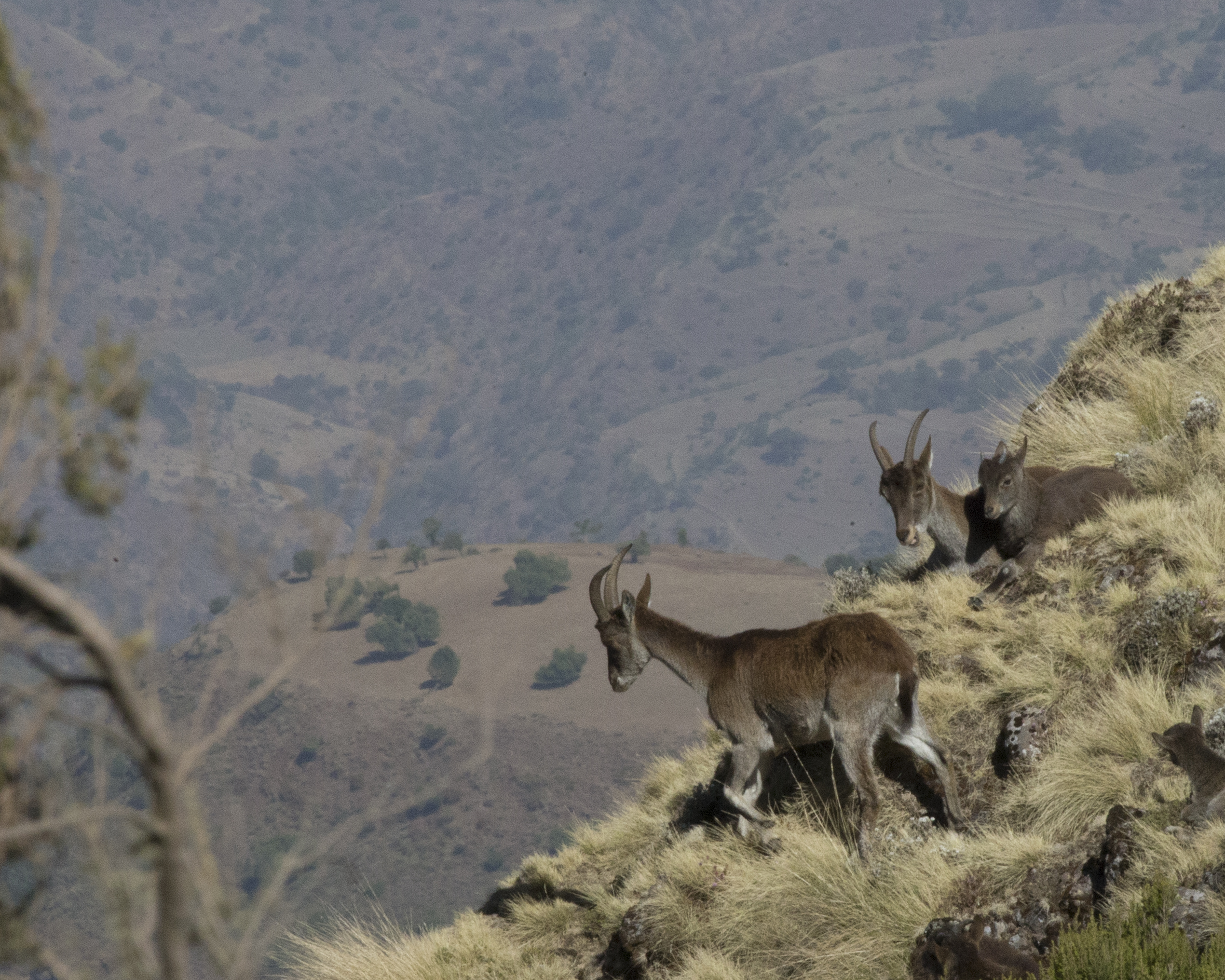 Walia ibex, Simien Mountains National Park, Ethiopian Highlands